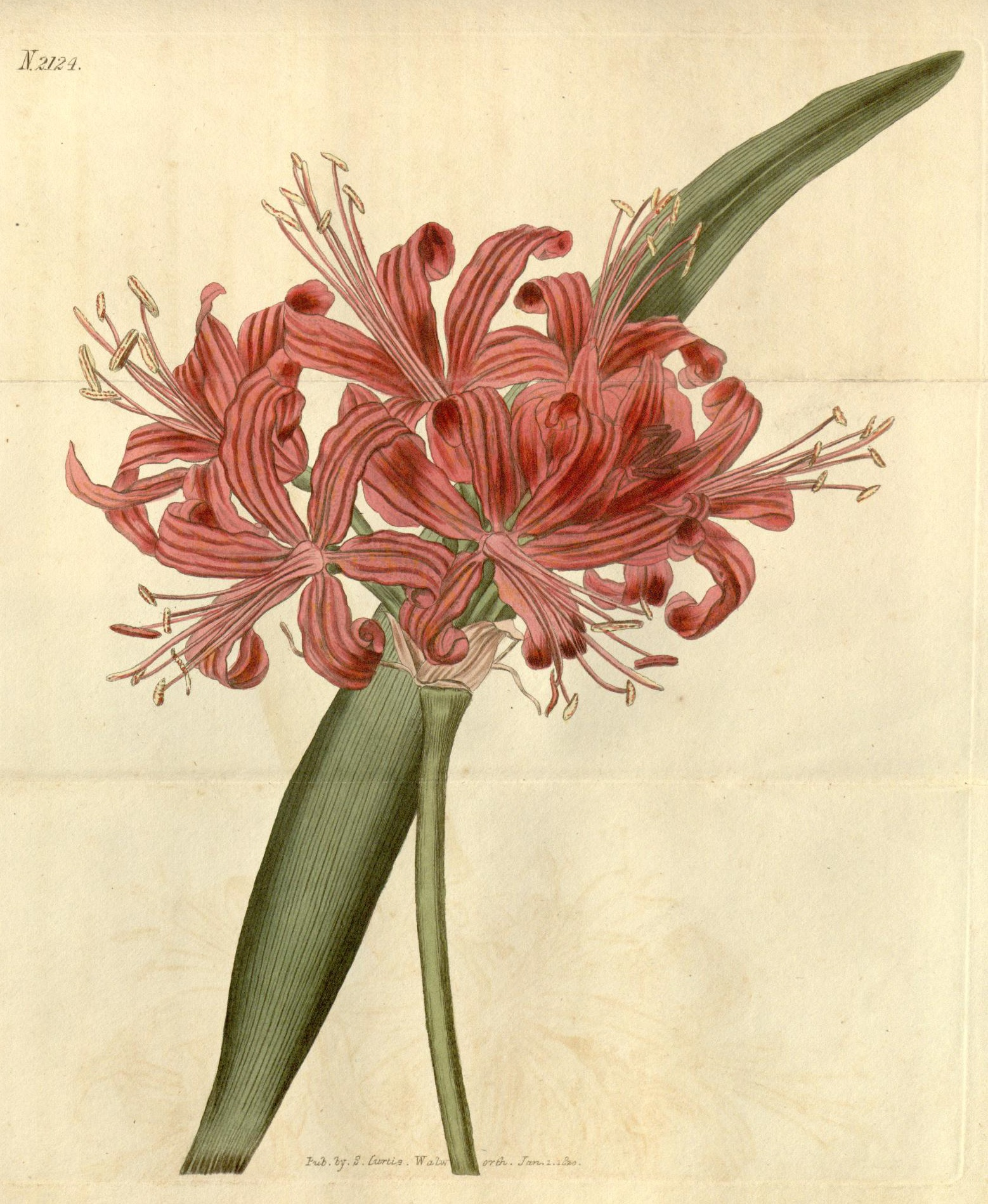 Inflorescence of Nerine rosea (N sarniensis). William Herbert 1820